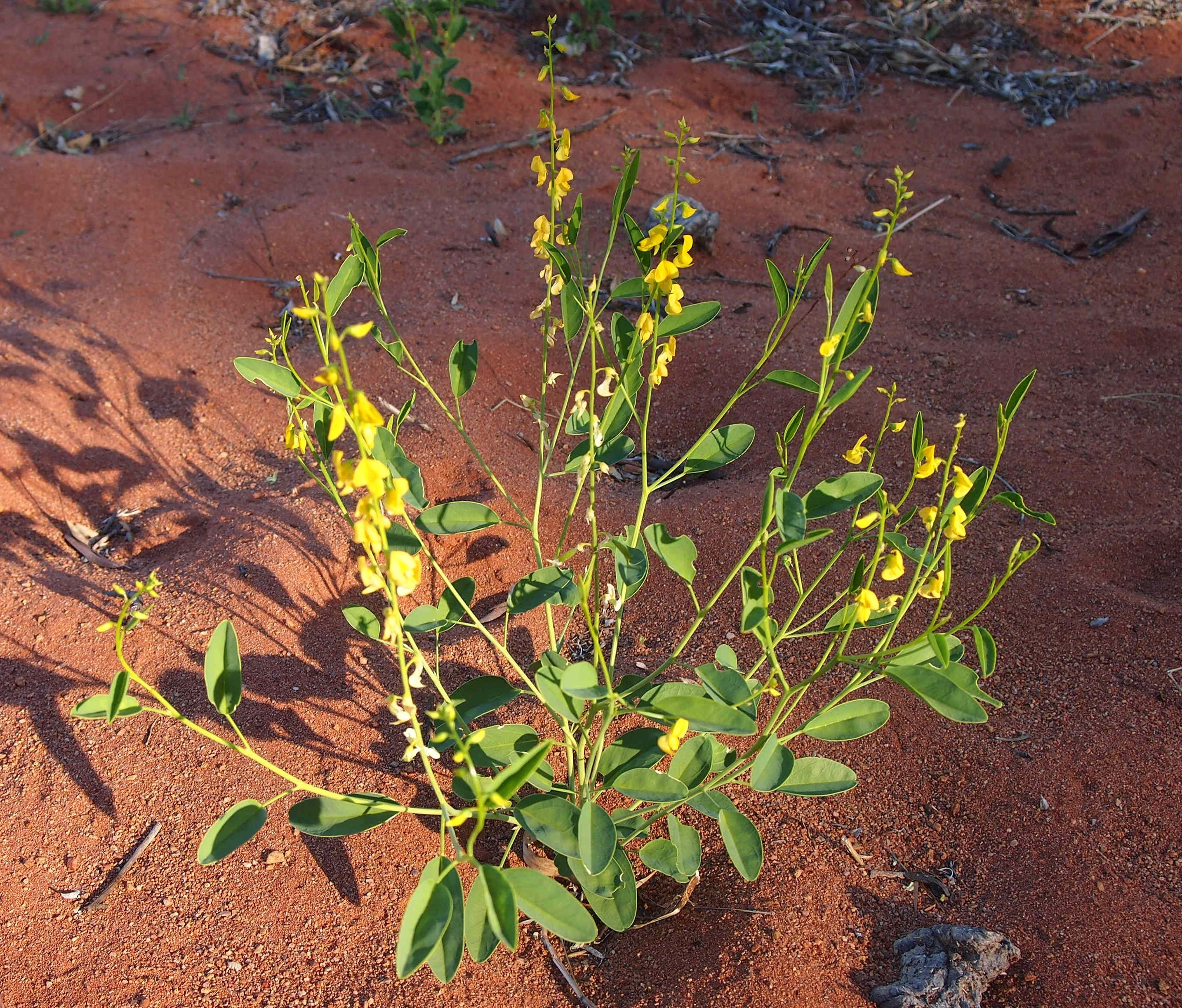 Crotalaria novae-hollandiae habit